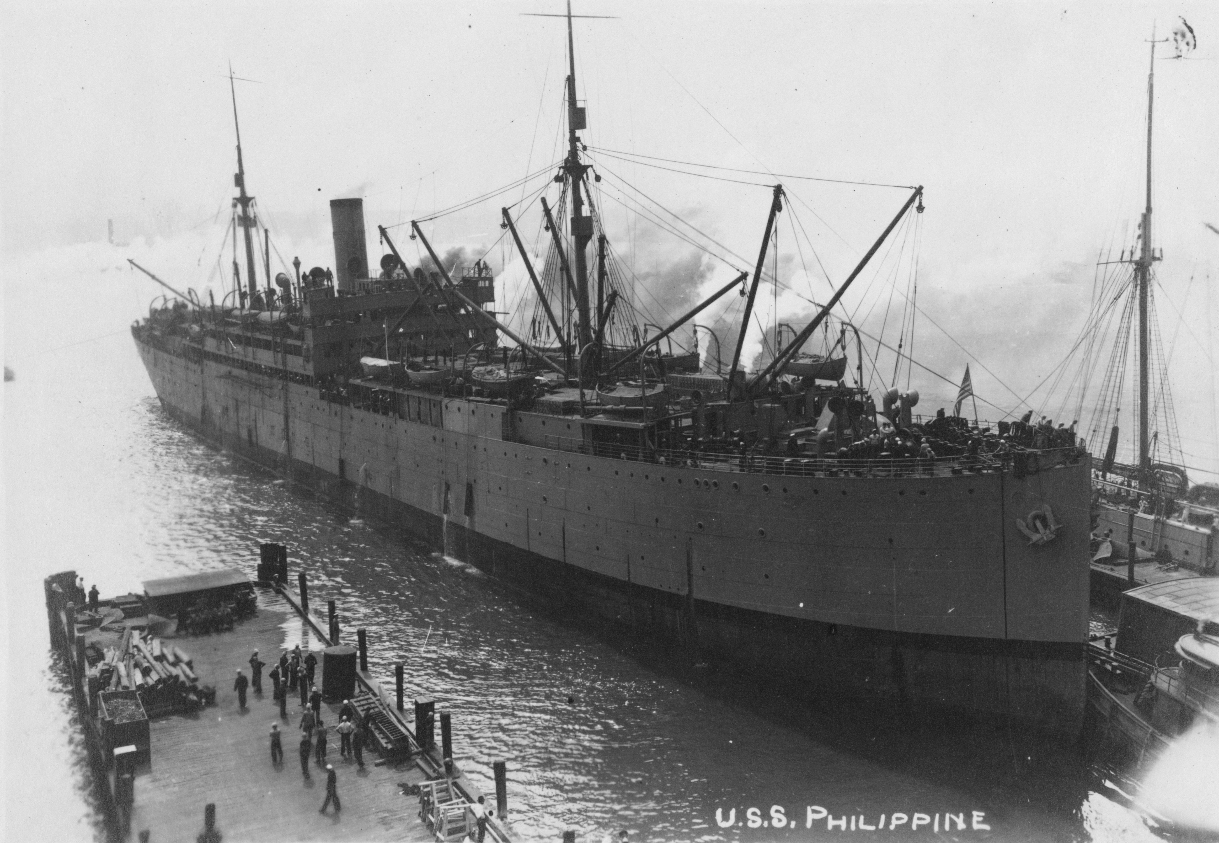 The troop transport USS Philippines (ID-1677) in port, with the 803rd Pioneer Battalion aboard. The source states the ship is "from Brest, France" but does not identify the port in which the photo was taken.